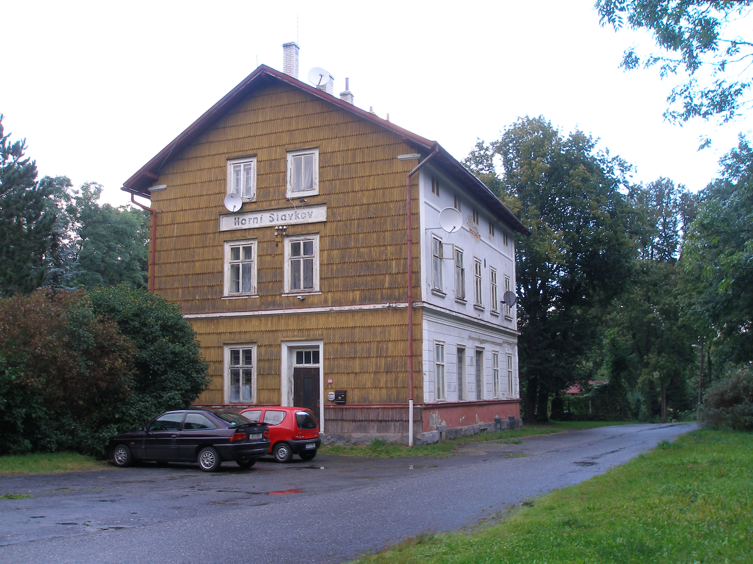 Station house of the railway station in Horní Slavkov